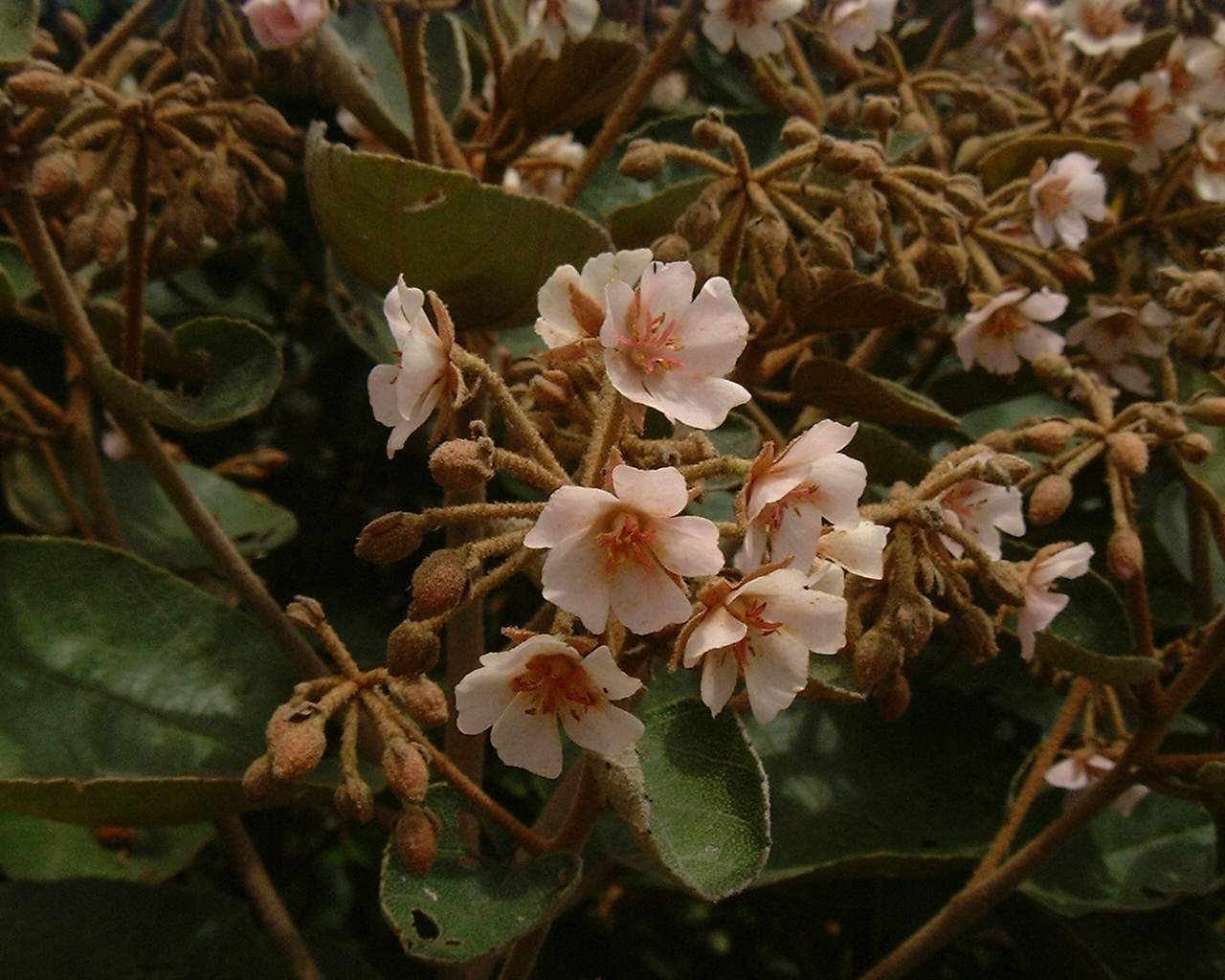 Petit mahot (Dombeya ficulnea) Photo : B.navez - 02 NOV 2003 - Réunion Island